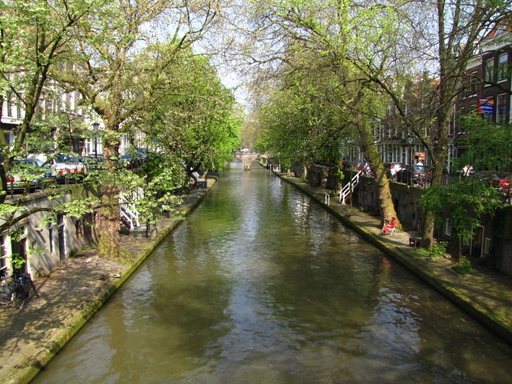 Oudegracht Utrecht